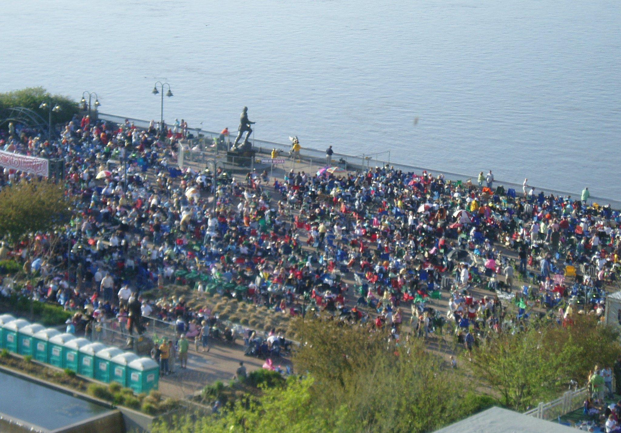 Riverfront Plaza/Belvedere, taken by SimonP